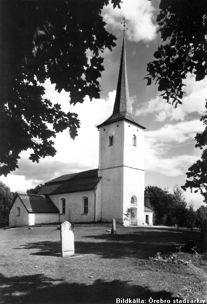 Gällersta church outside Örebro, Sweden